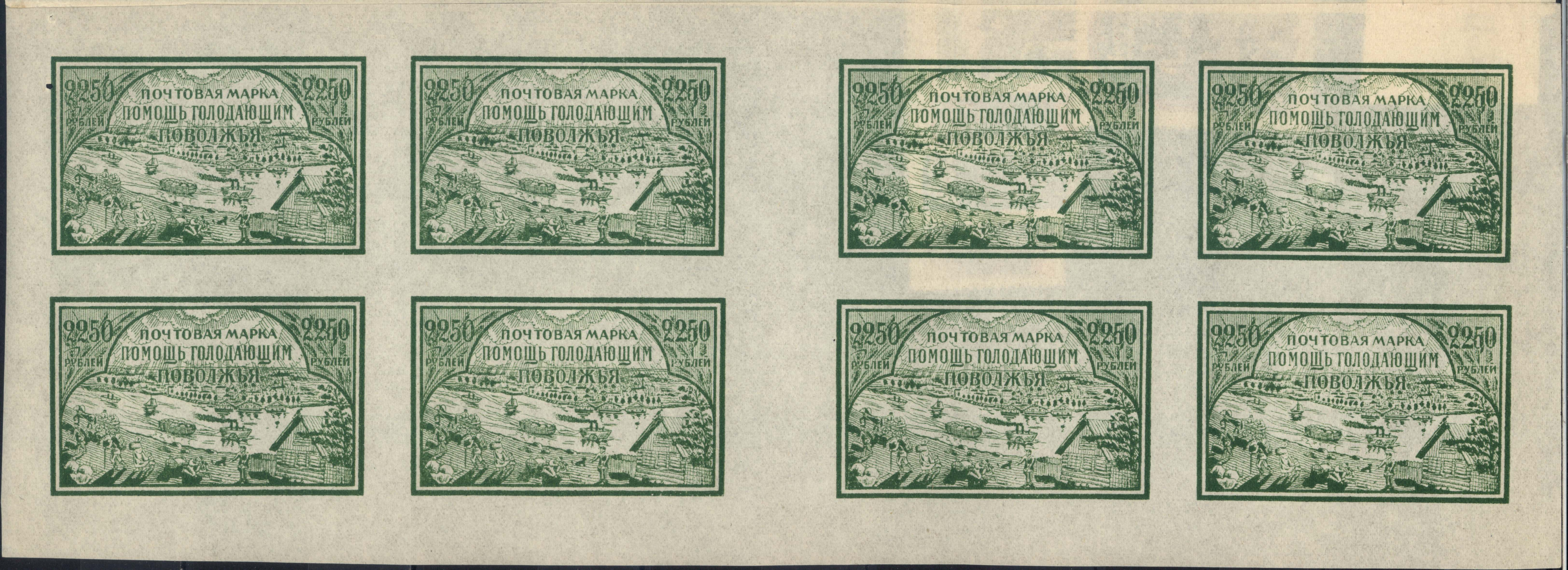 Semi-postal stamp of Soviet Russia, Pomgol, 1921, CPA #31